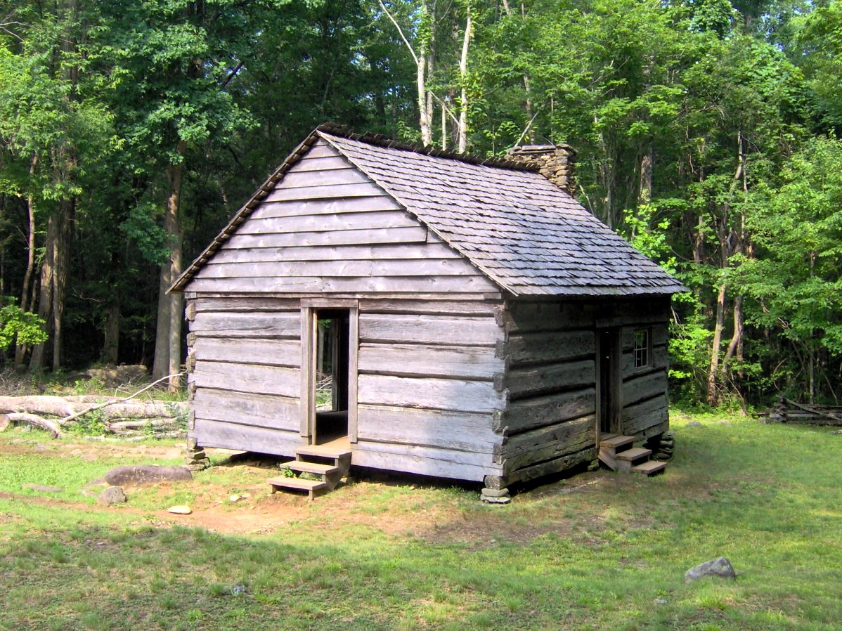 The Alex Cole Cabin at Roaring Fork, GSMNP, in East Tennessee. While now located at the Jim Bales Place, the cabin was originally located just below Cole Cemetery, near the heart of the Sugarlands. Cole was one of many mountain guides from the Sugarlands. The cabin was probably built around 1850 by Cole's parents or in-laws. The cabin is located within the Roaring Fork Historic District, but has its own listing on the National Register of Historic Places.